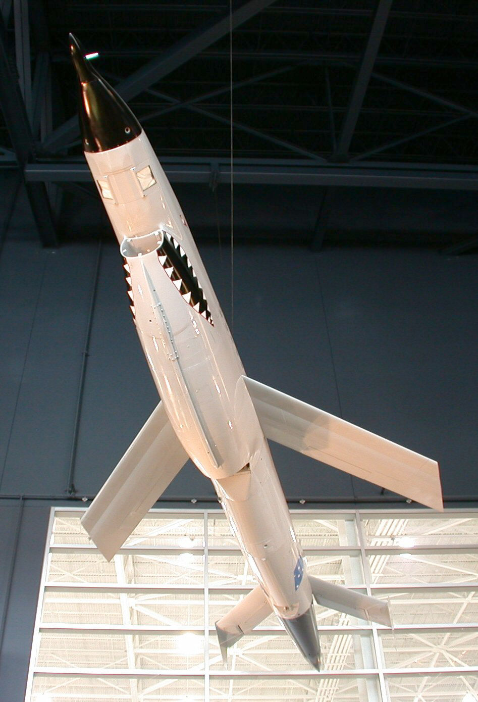 Ryan Model 147 „Lightning Bug“ reconnaissance drone at Strategic Air & Space Museum, Nebraska